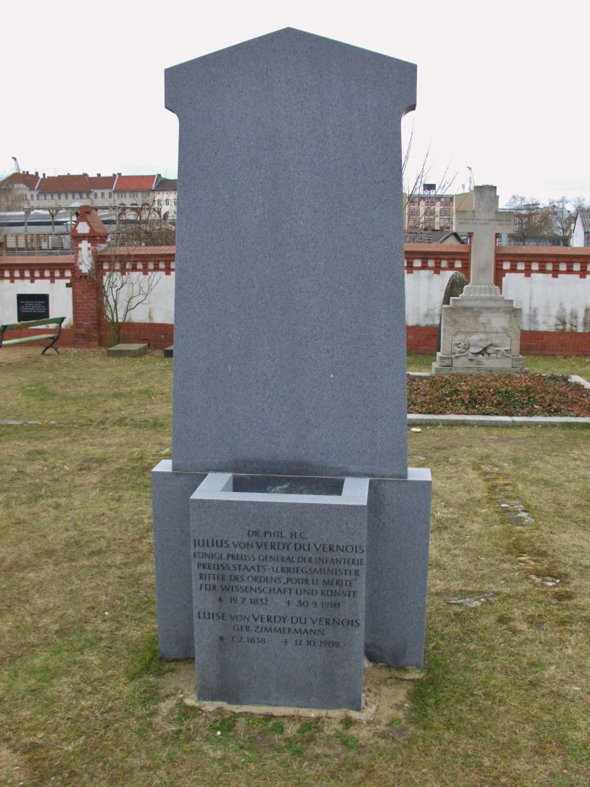 Grave of Julius and Luise von Verdy du Vernois (Situation 2013)